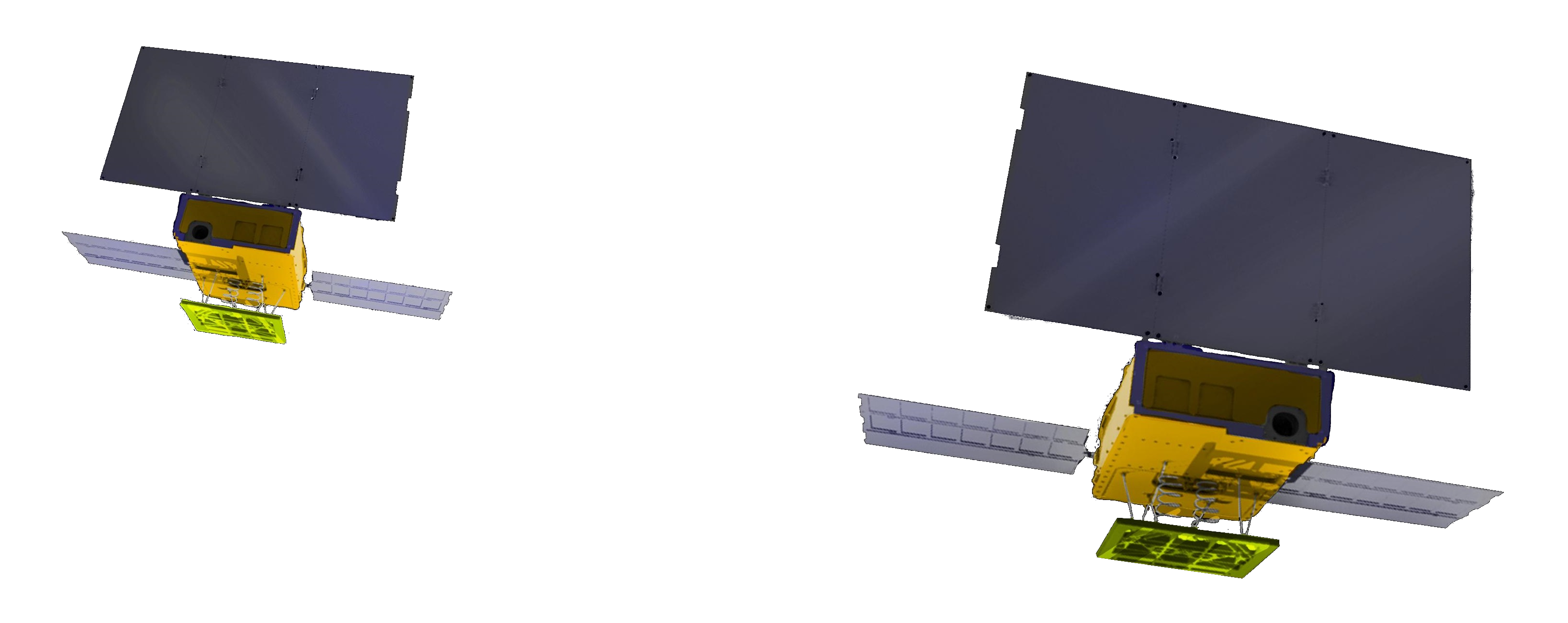 A transparent image of the InSight MarCO spacecraft.